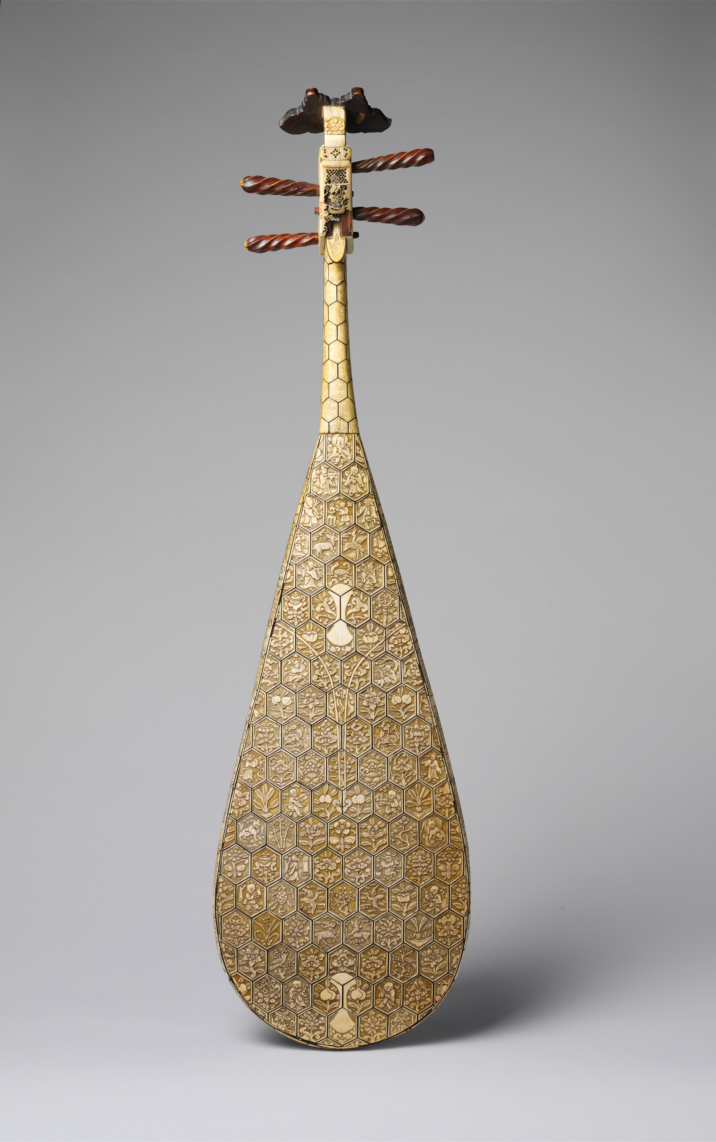 Pipa (琵琶) Chordophone-lute-plucked-fretted The spectacular back and sides of this unique Ming-dynasty instrument feature more than 110 hexagonal ivory plaques, with thinner bone plaques on the neck. Each plaque is carved with Taoist, Confucian, or Buddhist figures and symbols signifying prosperity, happiness, and good luck. These include images of various gods and immortals, such as Shou Lao, the Daoist god of longevity, who is shown with a prominent forehead on the single plaque at the very top. When the instrument is played, this expert workmanship remains unseen by the listener, as the back faces the player. The front is relatively plain but shows signs of use. The ivory string holder bears a scene featuring four figures and a bridge; an archaic cursive inscription; and, at the lip, a bat motif with leafy tendrils. Above the lower frets, two small insets depict a spider and a bird, and just before the rounded upper frets, a trapezoidal plaque portrays two men, one with a fish. The finial repeats the bat (good luck) motif.